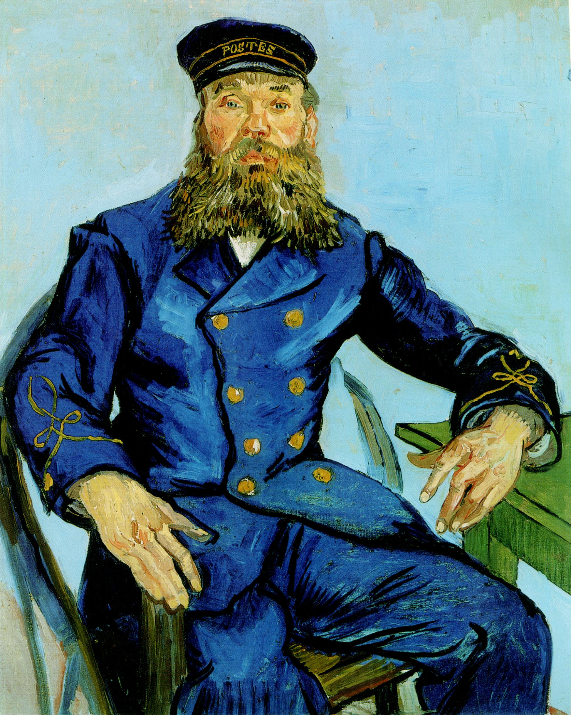 Portrait de Joseph Roulin, h/t, 81x65 cm, Museum of Fine Arts, Boston Museum of Fine Arts, Boston Native nameMuseum of Fine Arts BostonLocationBoston, MassachusettsCoordinates42° 20′ 21″ N, 71° 05′ 39″ W Established1870 Web page control : Q49133 VIAF: 151846308 ISNI: 0000 0001 0664 9044 ULAN: 500305147 LCCN: n79058410 NLA: 36527557 WorldCat institution QS:P195,Q49133